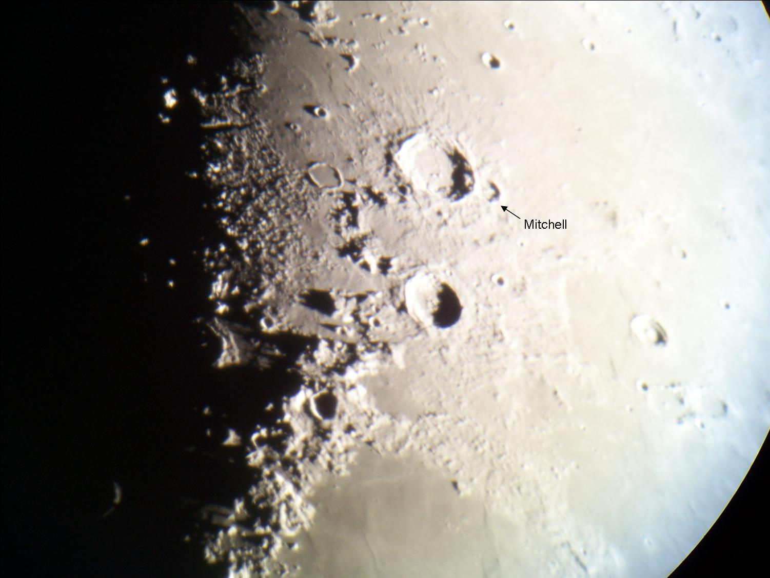 Image taken by Eric S. Kounce of the West Texas Astronomers ( on October 28, 2006 at the McDonald Observatory 36" Telescope.